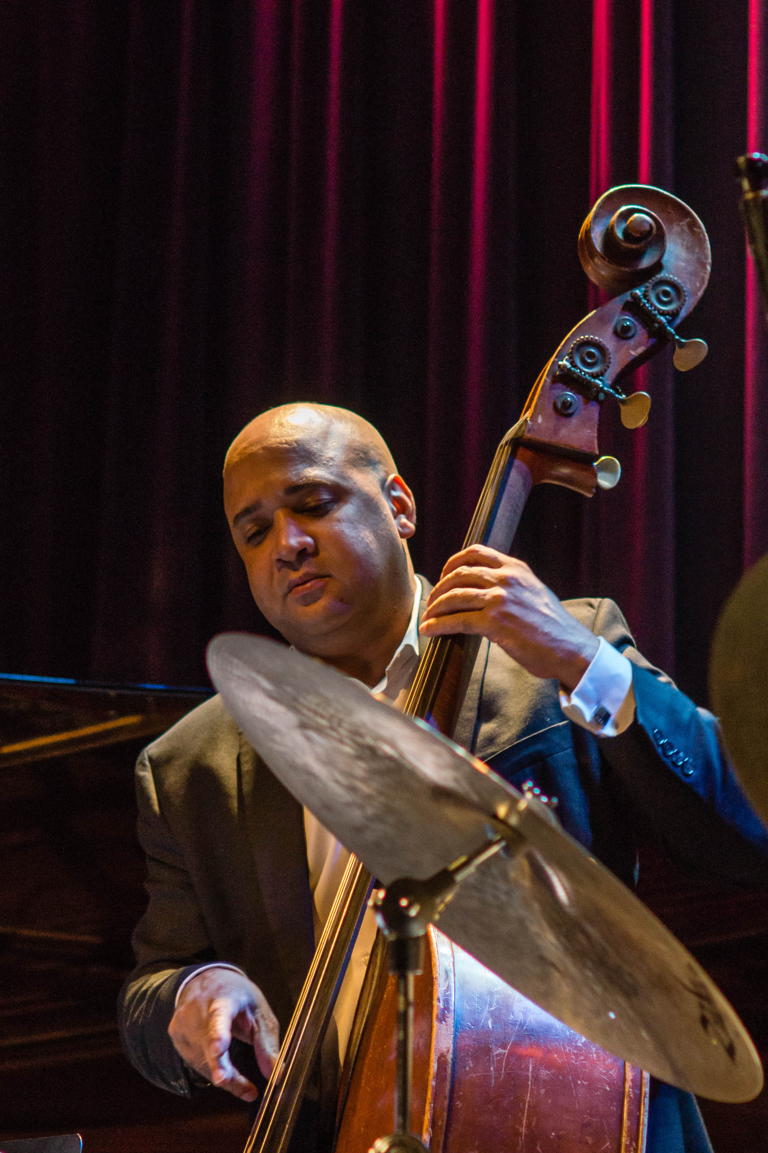 Peter Washington, bass. Bill Charlap Trio @ Dimitriou's Jazz Alley.